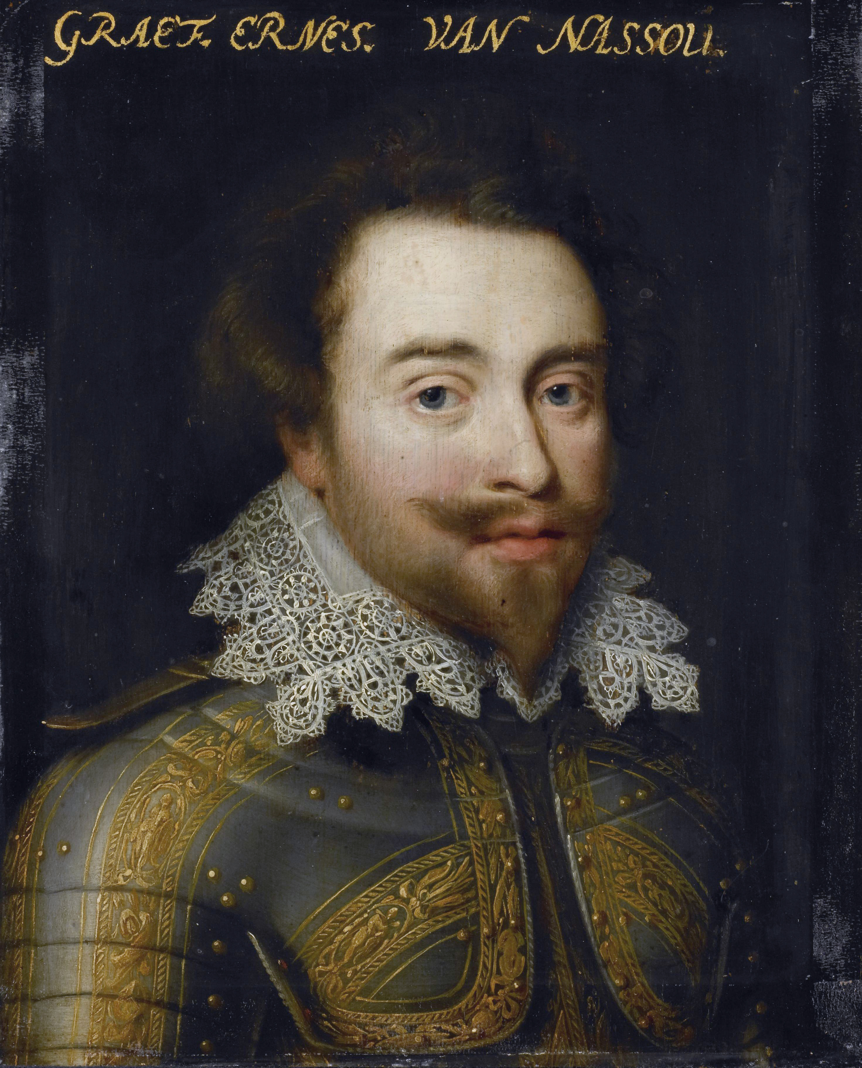 Portrait of Johan Ernst I (1582–1617), Count of Nassau-Siegen. Part of the Leeuwarden series, a series of portraits of military officials from the Eighty Years' War as well as members of the House of Orange-Nassau, first documented in 1633 in the Stadhouderlijk Hof (Stadholder's Court) in Leeuwarden (see Object history).